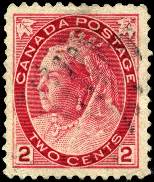 Canada 2-cent "maple leaf" stamp of 1899